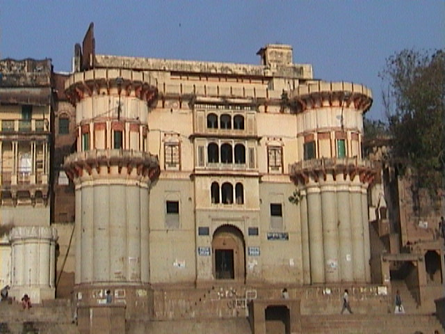 See Varanasi Development Cooperation Handbook/Stories/Responsible Development - Varanasi The Varanasi Heritage Dossier Kautilya Society Play media Vrinda Dar - How we got involved in heritage protection of Varanasi